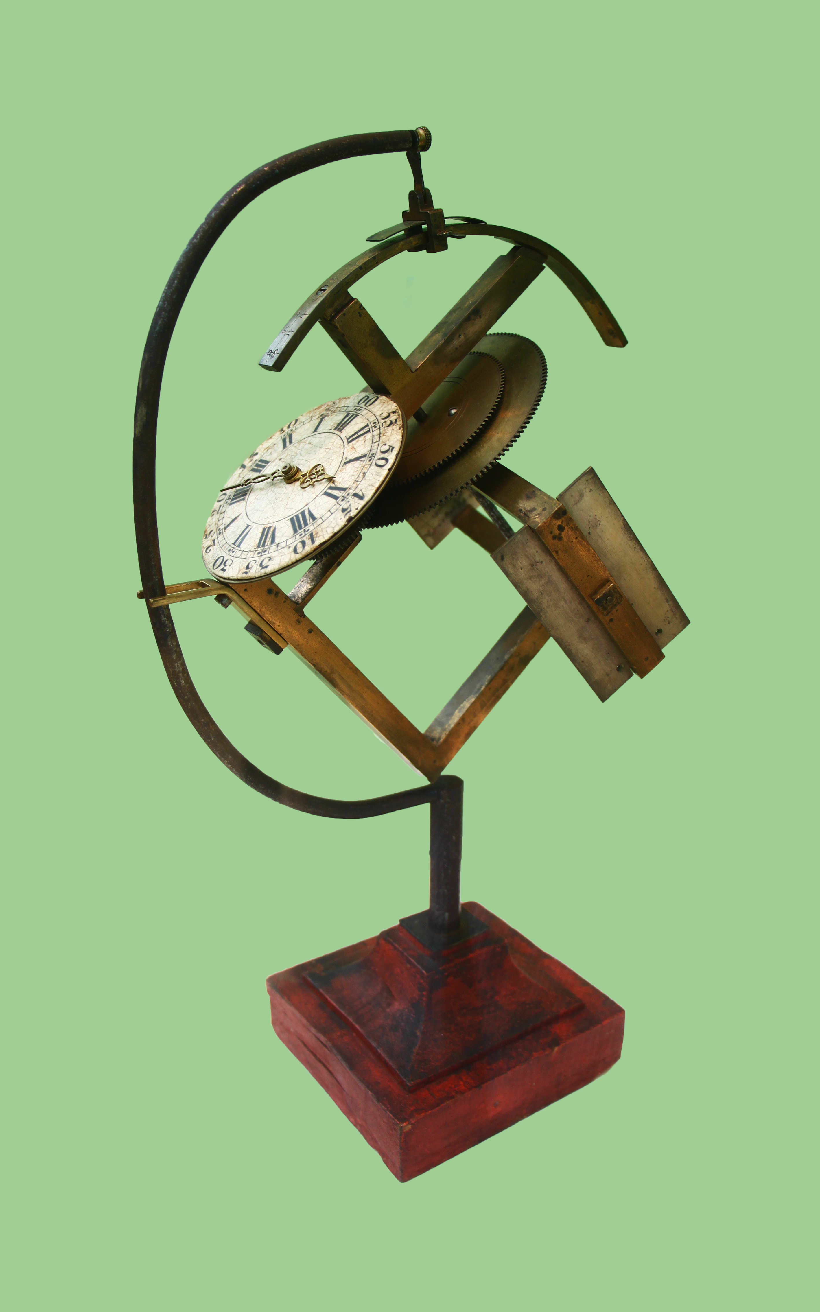 Öhrsonnenuhr (Eye Sundial) of Philipp Matthäus Hahn , constructed in Kornwestheim, Germany, 1777, a special kind of a sundial. After been adjusted, the time is indicated by a hour hand and a minute hand. Both the mean time and the local time can be indicated. Landesmuseum für Technik und Arbeit, Mannheim, Germany.